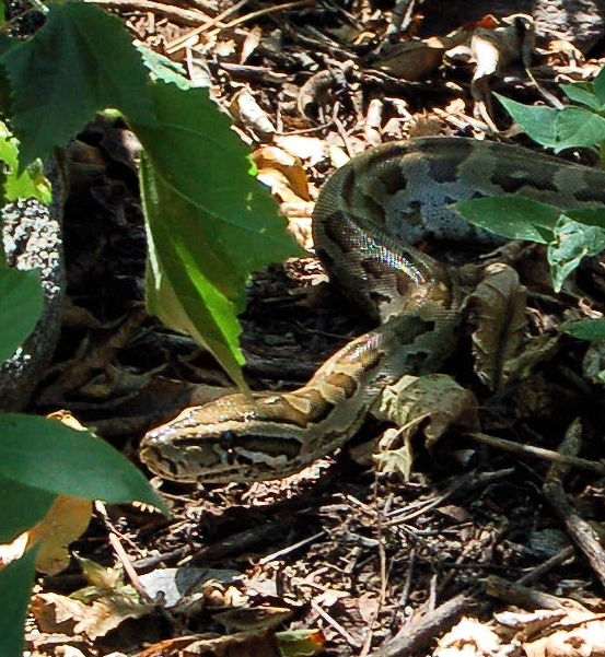 A Rock Python, aka Southern African Python (Python natalensis)